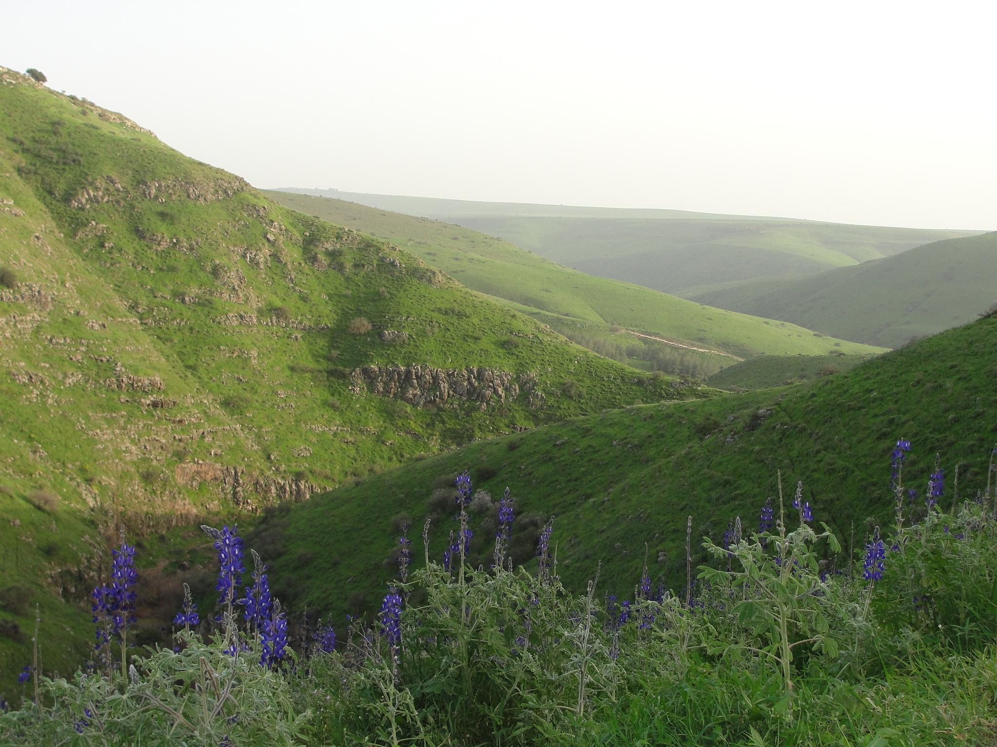 Tabor stream looking south-east, Lupins in foreground.